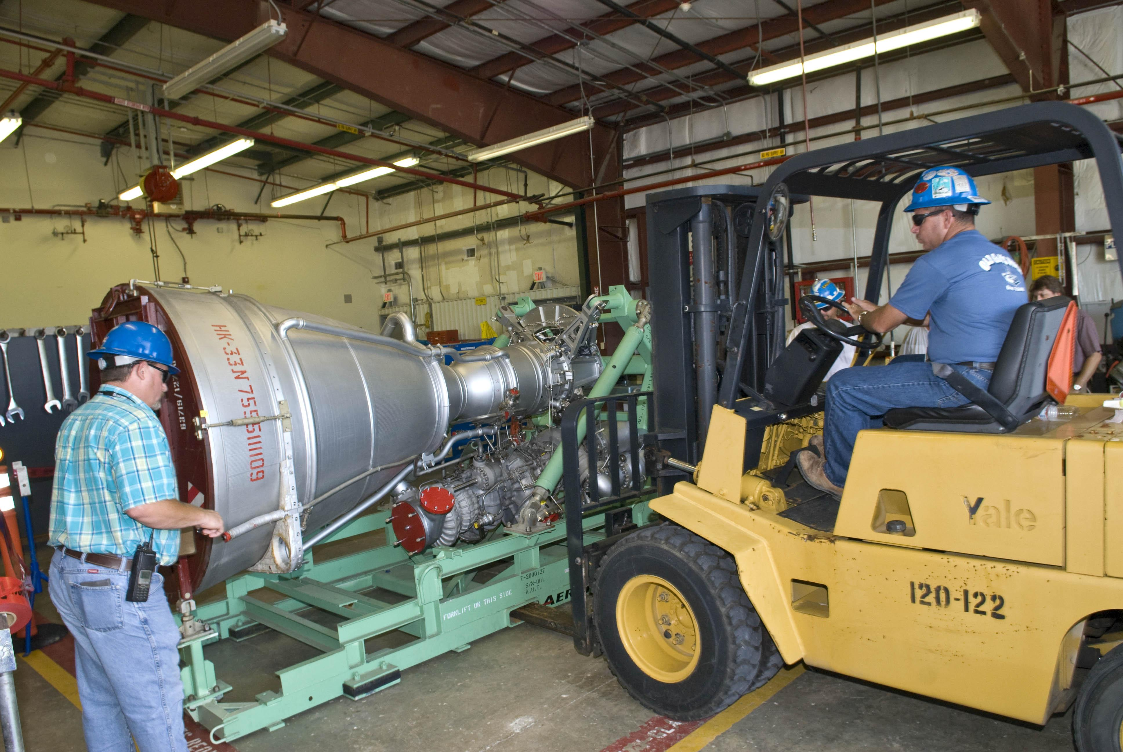 An Aerojet AJ26 rocket engine was delivered to NASA's John C. Stennis Space Center on July 15, 2010.